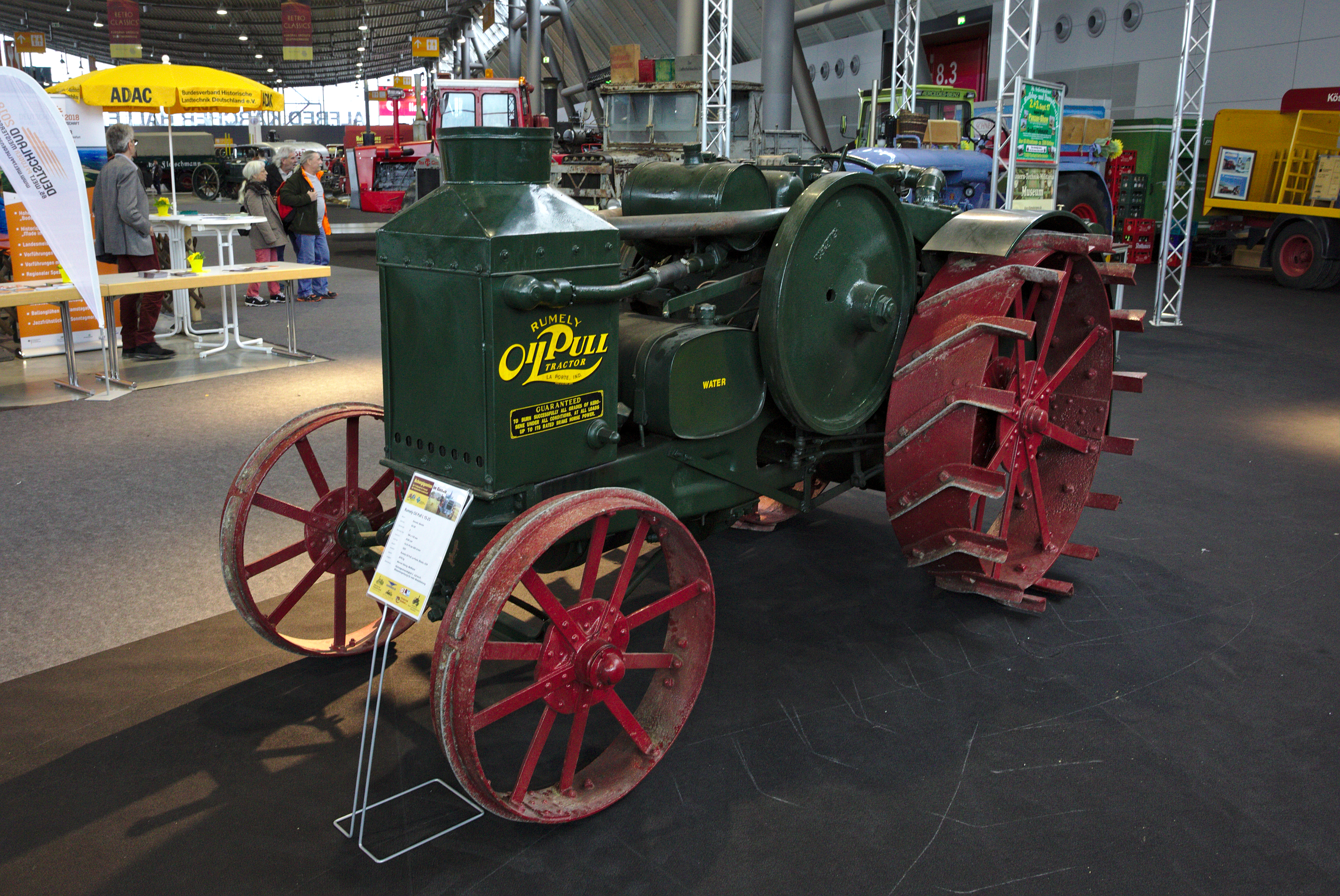 Rumely Oil Pull L 15-25 at Retro Classics 2018